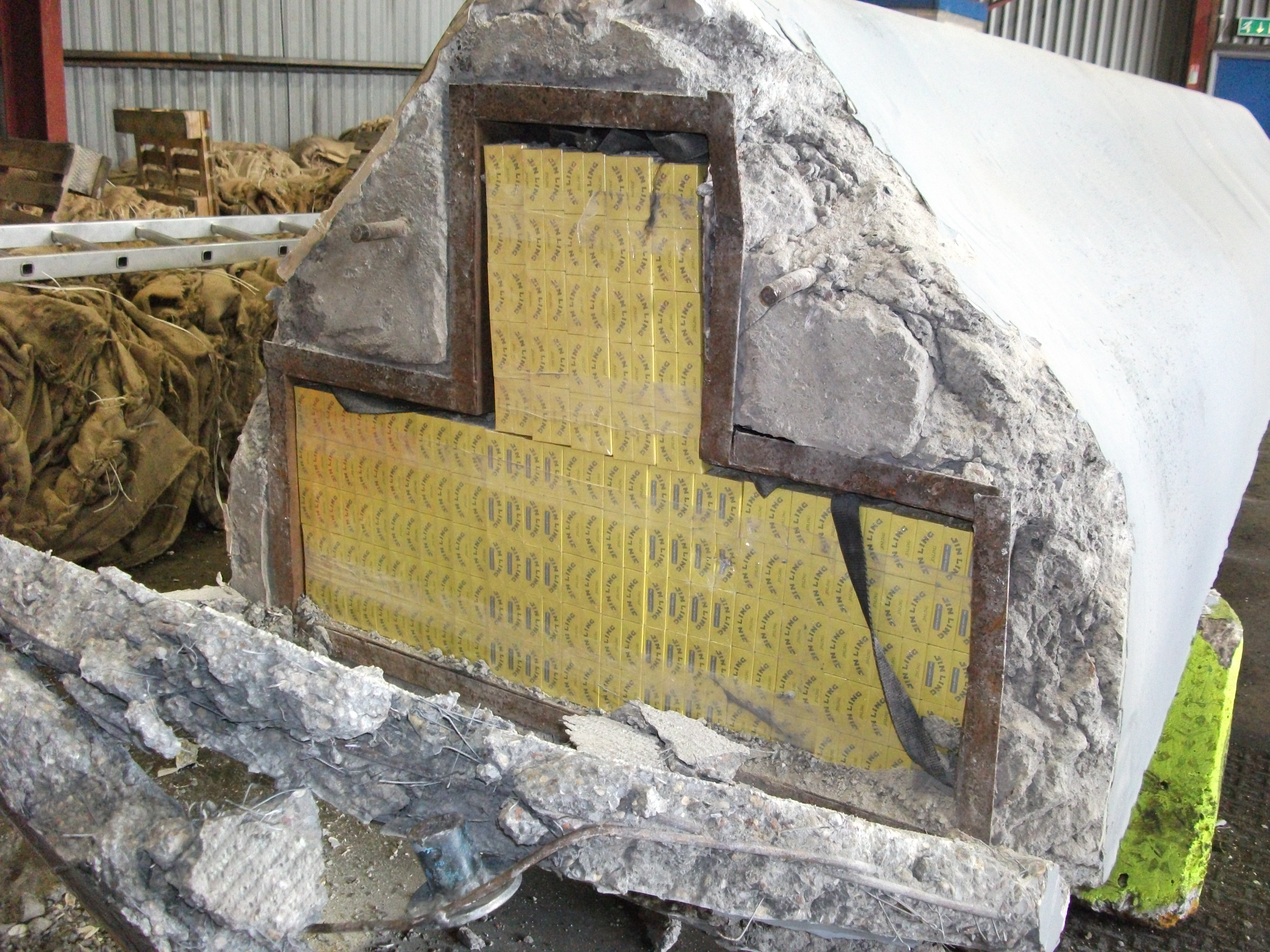 The UK Border Agency found over one million Jing Ling cigarettes hidden inside concrete blocks during a search on 27 October 2010.